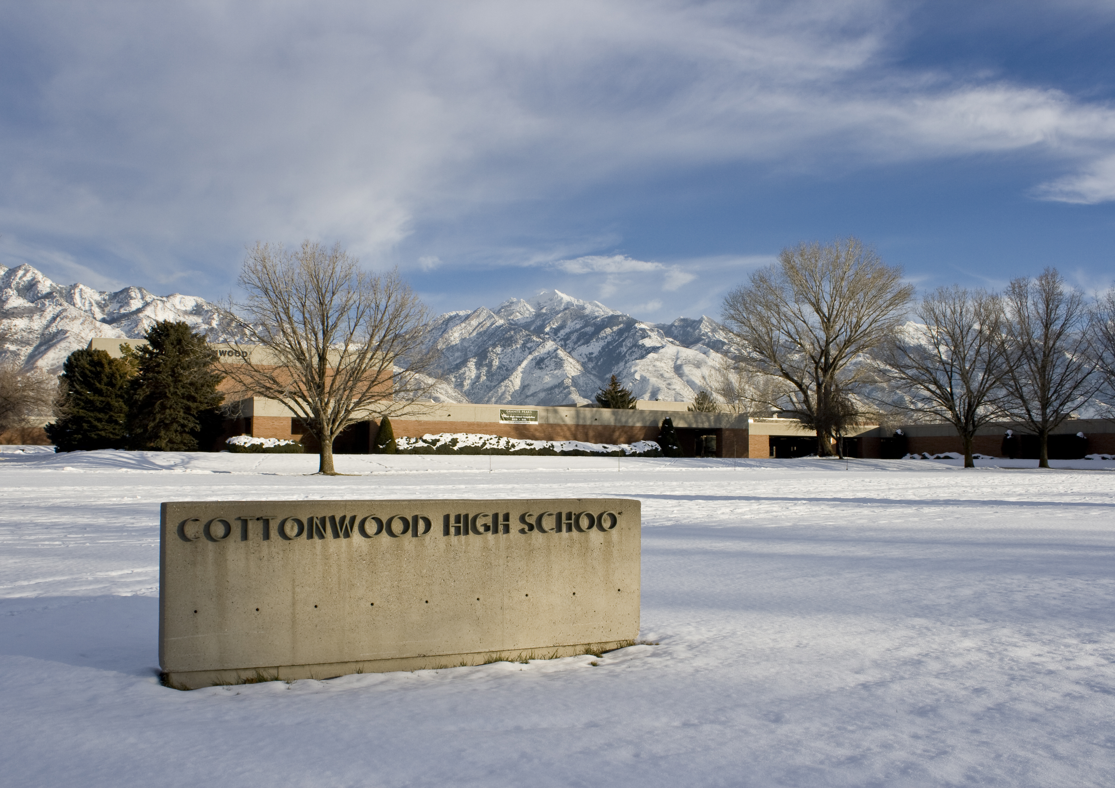 Cottonwood High School in Murray, Utah. The photo shows the Cottonwood High sign in the foreground with the school in the background, against a backdrop of the Wasatch Mountains. Taken from the north-west corner of the campus.